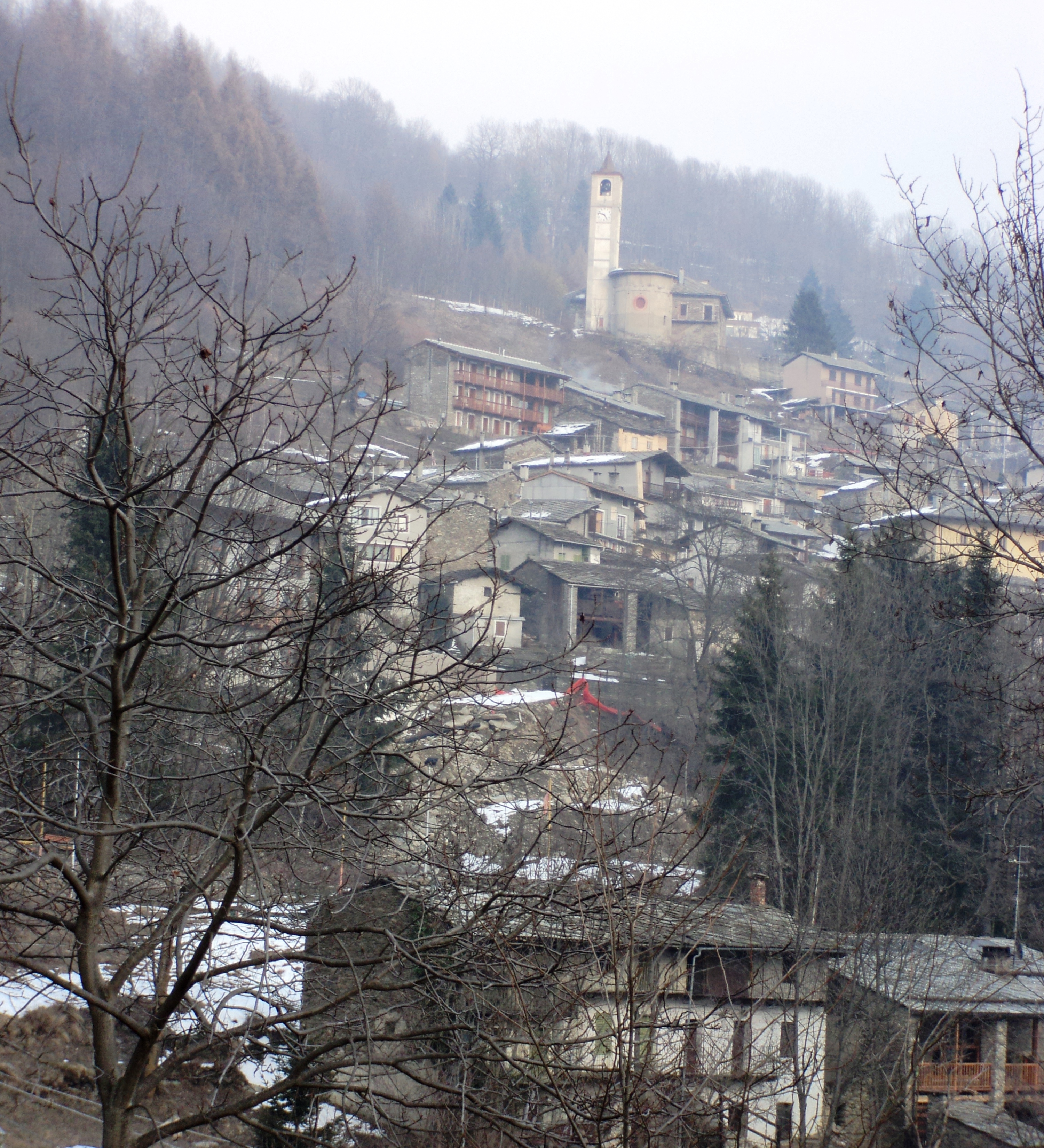 Ostana - Province of Cuneo - Piedmont - Italy